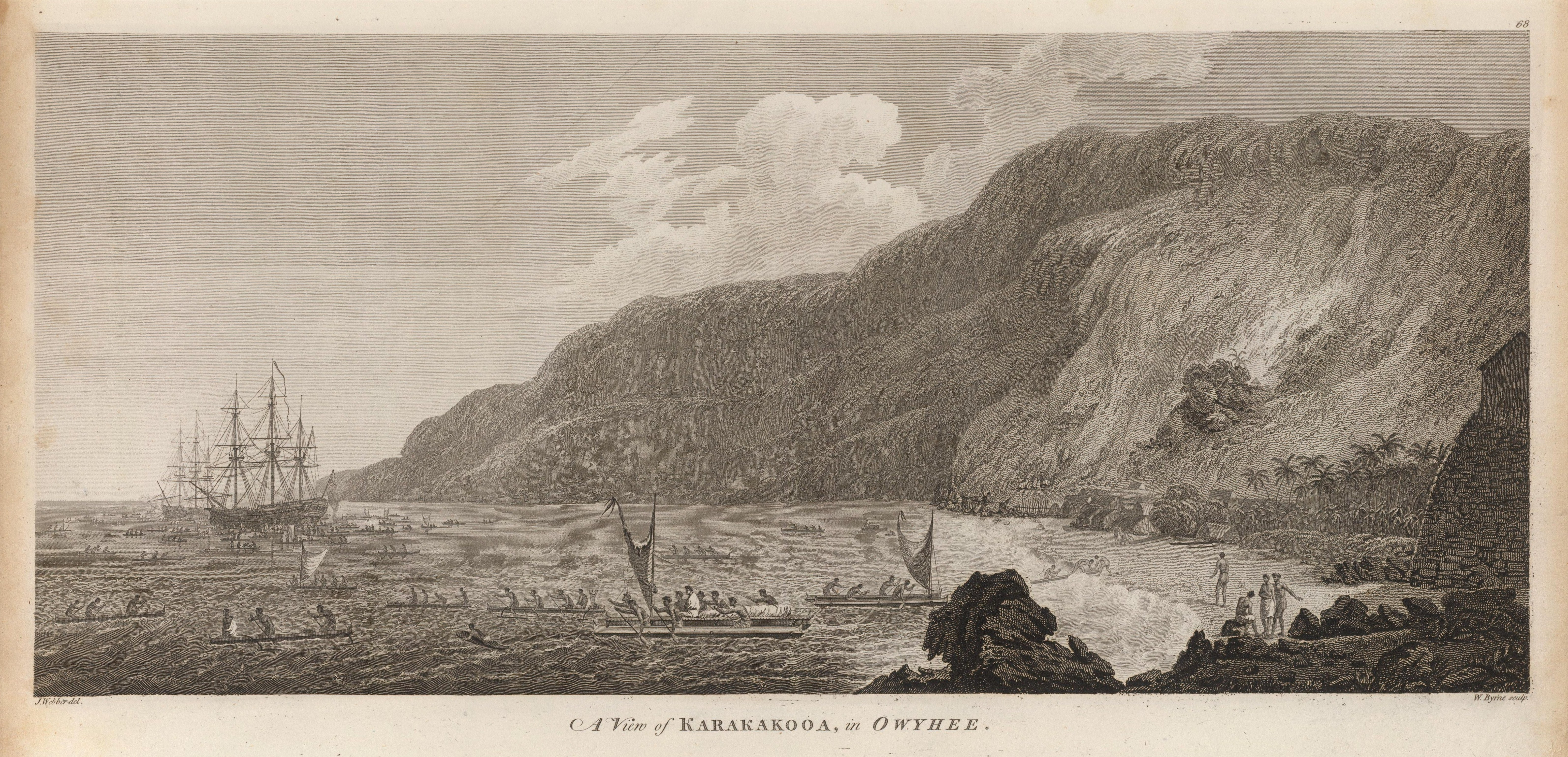 A view of Karakokooa, in Owyhee. J. Webber del. W. Byrne sculp. (London, G. Nicol and T. Cadell, 1785).her.